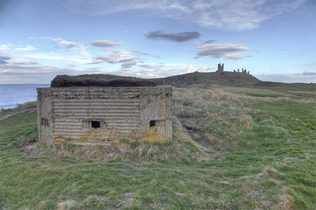 Pillbox overlooking Embleton Bay, north of Dunstanburgh Castle A lozenge pillbox constructed using corrugated iron shuttering. The pillbox was constructed c1941-42 as part of the Northumberland coast defences.